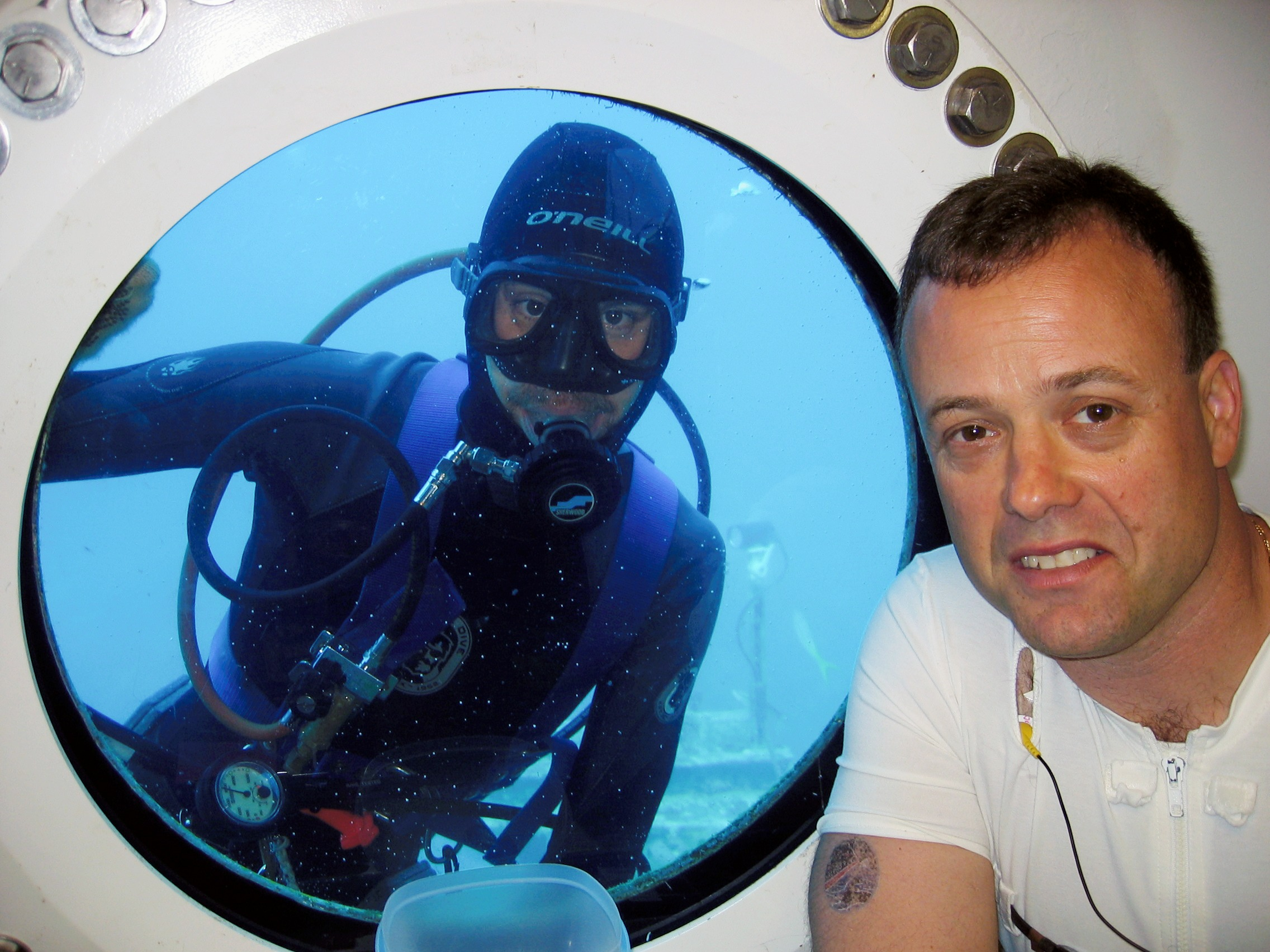 NASA astronaut/aquanaut Ronald J. Garan, Jr. inside the Aquarius underwater laboratory during the NASA-NOAA NEEMO 9 mission in April 2006. Outside the habitat window is Aquarius habitat technician and professional aquanaut Ross Hein. A temporary tattoo of the NEEMO 9 crew mission patch is on Garan's arm.